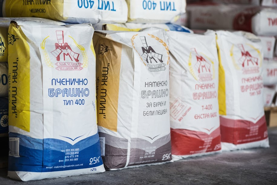 Flours of Mak Mlin